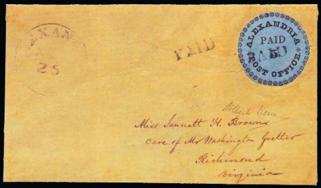 Alexandria "Blue Boy" Postmaster's Provisional on the cover, 1847